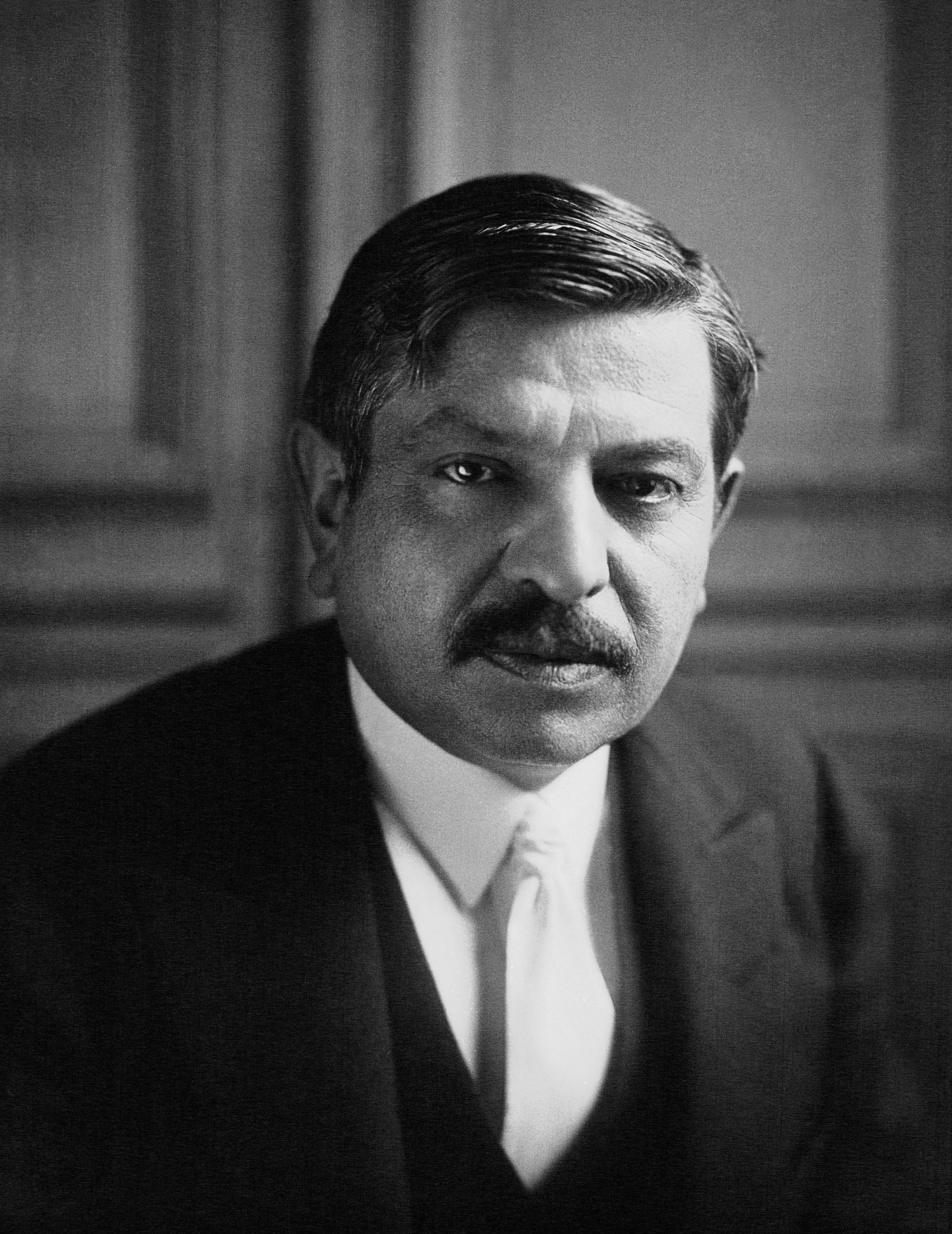 Pierre laval (1883-1945). French politician, he was several times Prime Minister of France during the 3rd Republic and especially during WWII. Executed by firing squad for high treason in 1945. Cropped version